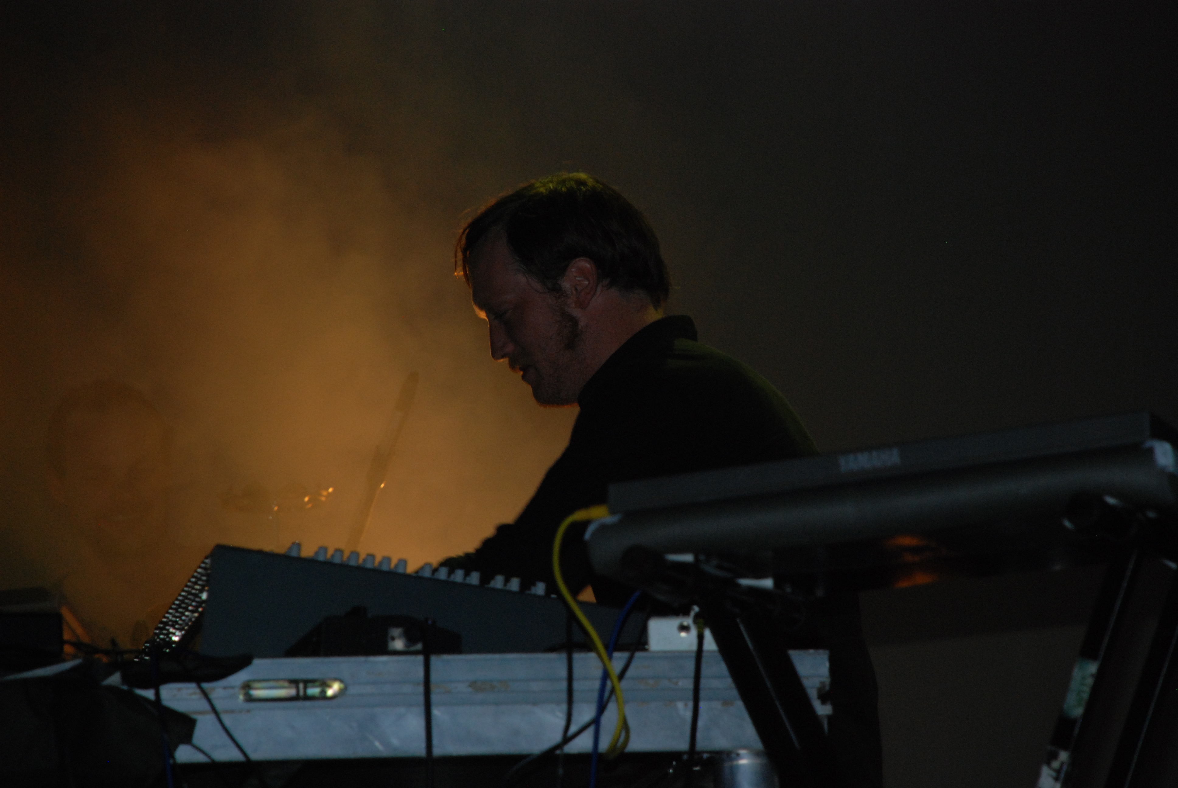 Axel Willner a.k.a. The Field at 9. International Film Festival Era New Horizons, Wrocław, Poland, 23.07-2.08.2009.